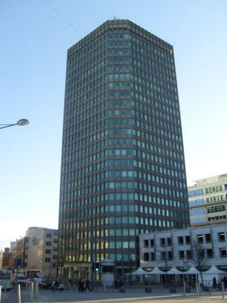 Pearl Assurance Building, now named Capital Tower 2007